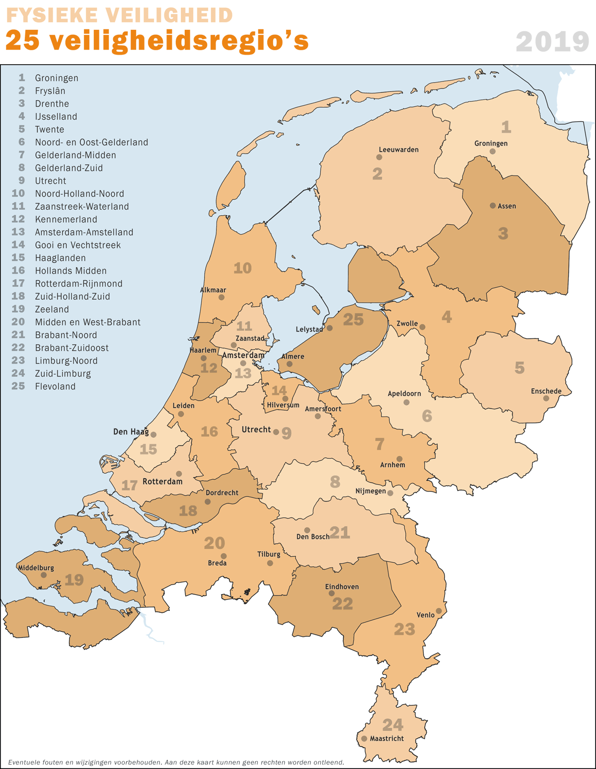 Overview map of the Dutch Safety regions as per 2019, compiled by Jan-Willem van Aalst using open geodata.